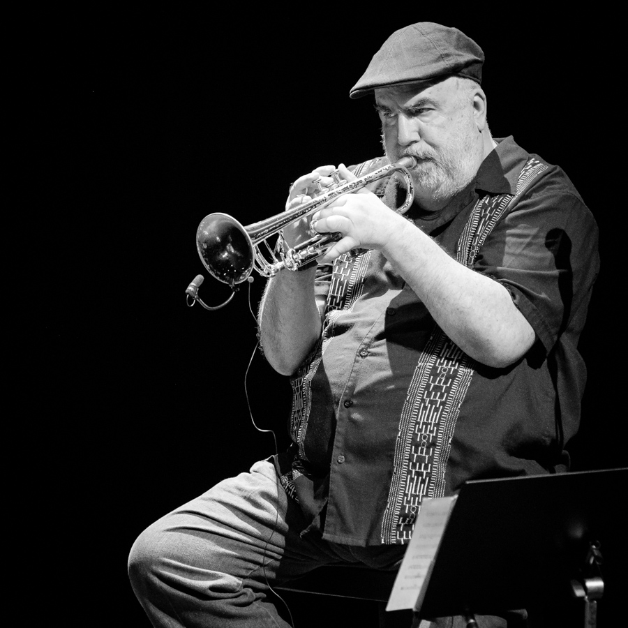 Randy Brecker in a concert with Mike Stern at Kongsberg Musikkteater. The concert was part of Kongsberg Jazzfestival and took place on 07. July 2018 in Kongsberg. Lineup:Mike Stern (guitar)Randy Brecker (trumpet)Tom Kennedy (bass guitar)Dennis Chambers (drums)